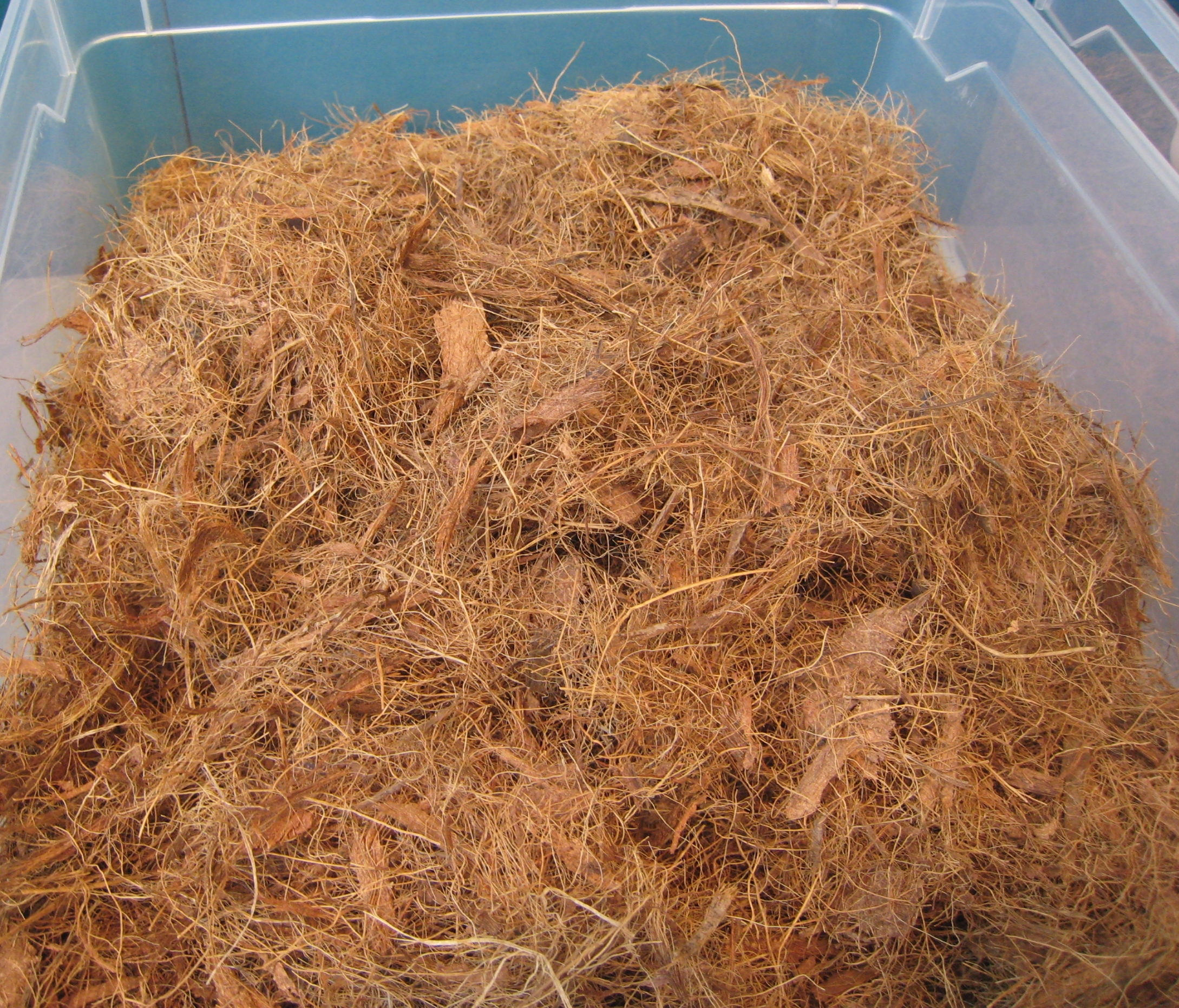 Coconutfibres as planting material instead of (for example) humus